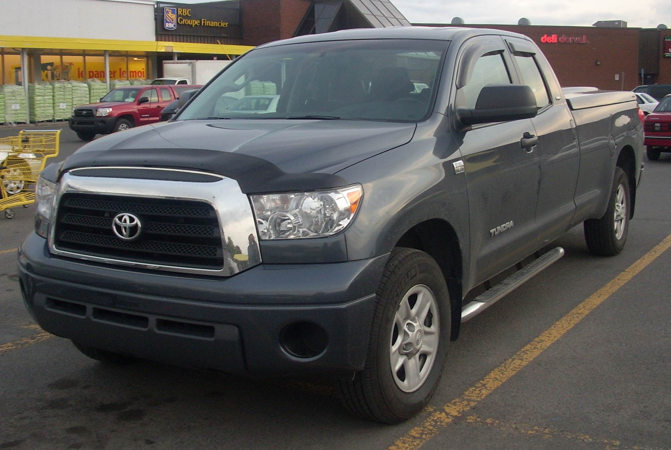 2007-present Toyota Tundra photographed in Montreal, Quebec, Canada.